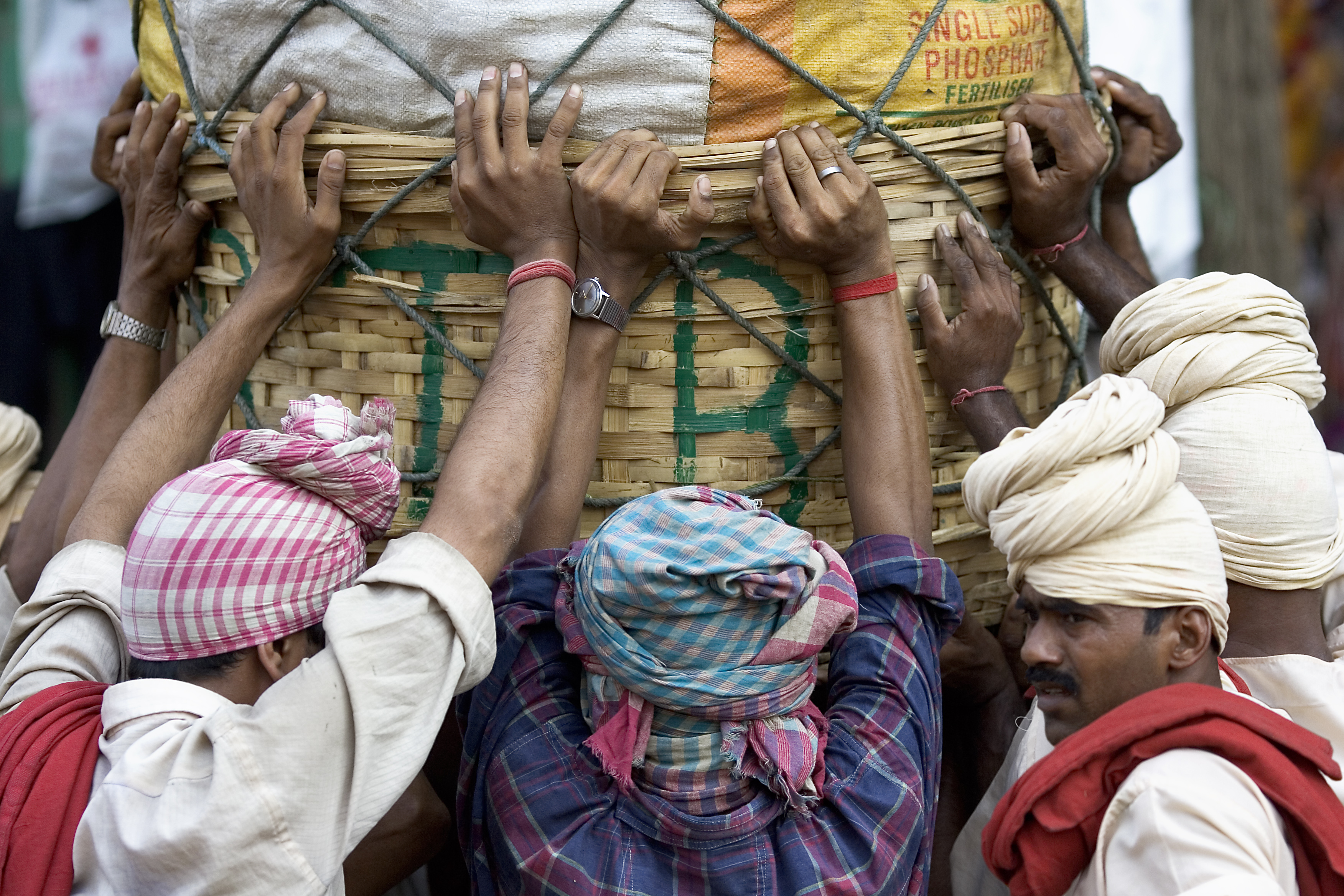 Coolies pushing up a heavy load, Kolkata, India